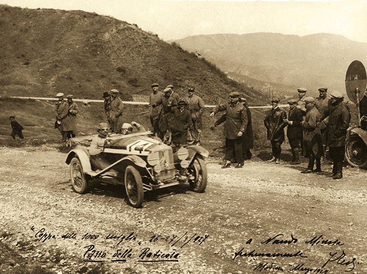 Entry #14 at the first Mille Miglia race in Italia on 27 Marz 1927 was an OM 665 Sport driven by Ferdinando Minoia and Giuseppe Morandi.[1] Handwriting says approximately this: "Coppa delle 1000 miglia" 26–27/3/1927 Passo della Raticosa ... a Nando Minoia f...?